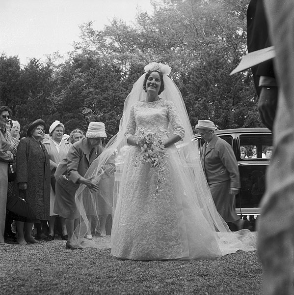 Teitl Cymraeg/Welsh title:Priodas Catherine Teleri Hughes, merch Hywel Hughes, Bogota, a Cyril W Jones, Lerpwl, ym Miwmares Ffotograffydd/Photographer: Geoff Charles (1909-2002) Dyddiad/Date: September 28, 1961 Cyfrwng/Medium: Negydd ffilm / Film negative Cyfeiriad/Reference: (gch25130) Rhif cofnod / Record no.: 3471054 Rhagor o wybodaeth am gasgliad Geoff Charles yn Llyfrgell Genedlaethol Cymru More information about the Geoff Charles Collection at the National Library of Wales